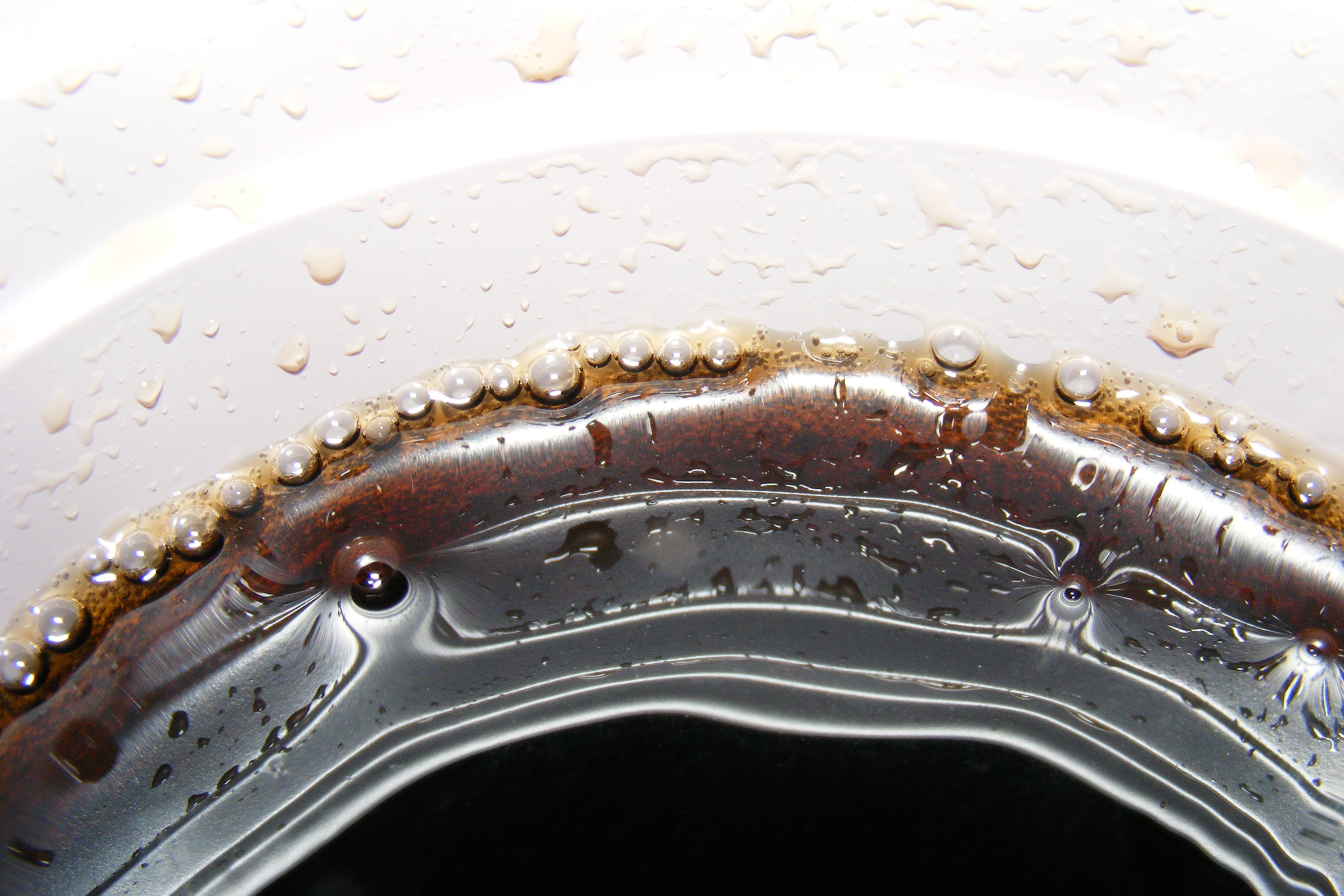 A white plastic cup containing some cola.